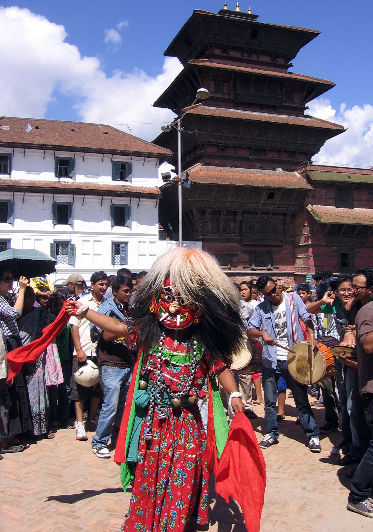 Lakhe masked dancer of Bhojpur performing in Kathmandu Durbar Square.